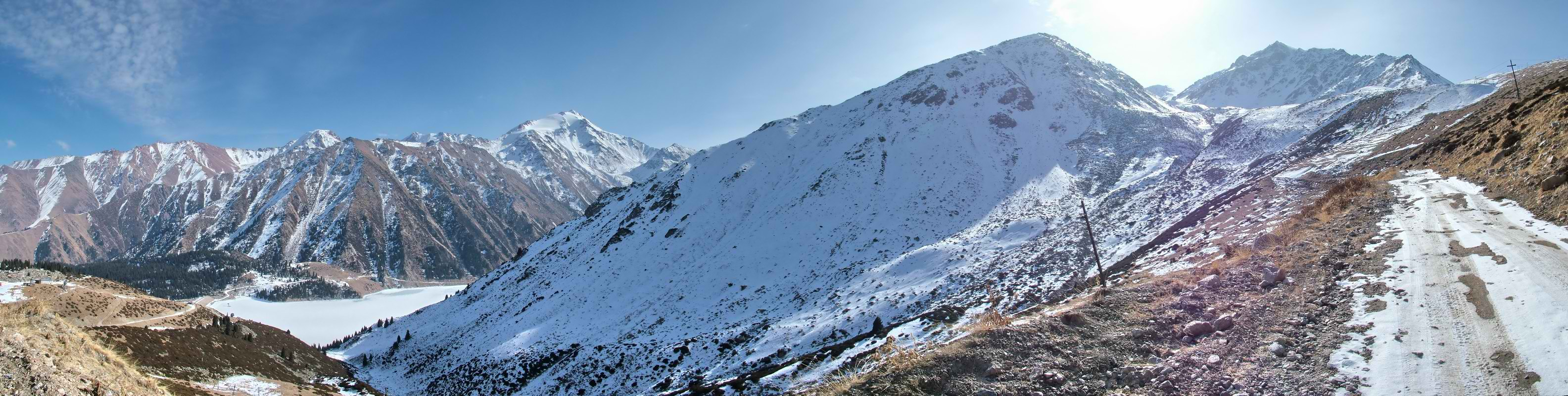 Ile-Alatau National Park, Unnamed Road, Almaty, Kazakhstan